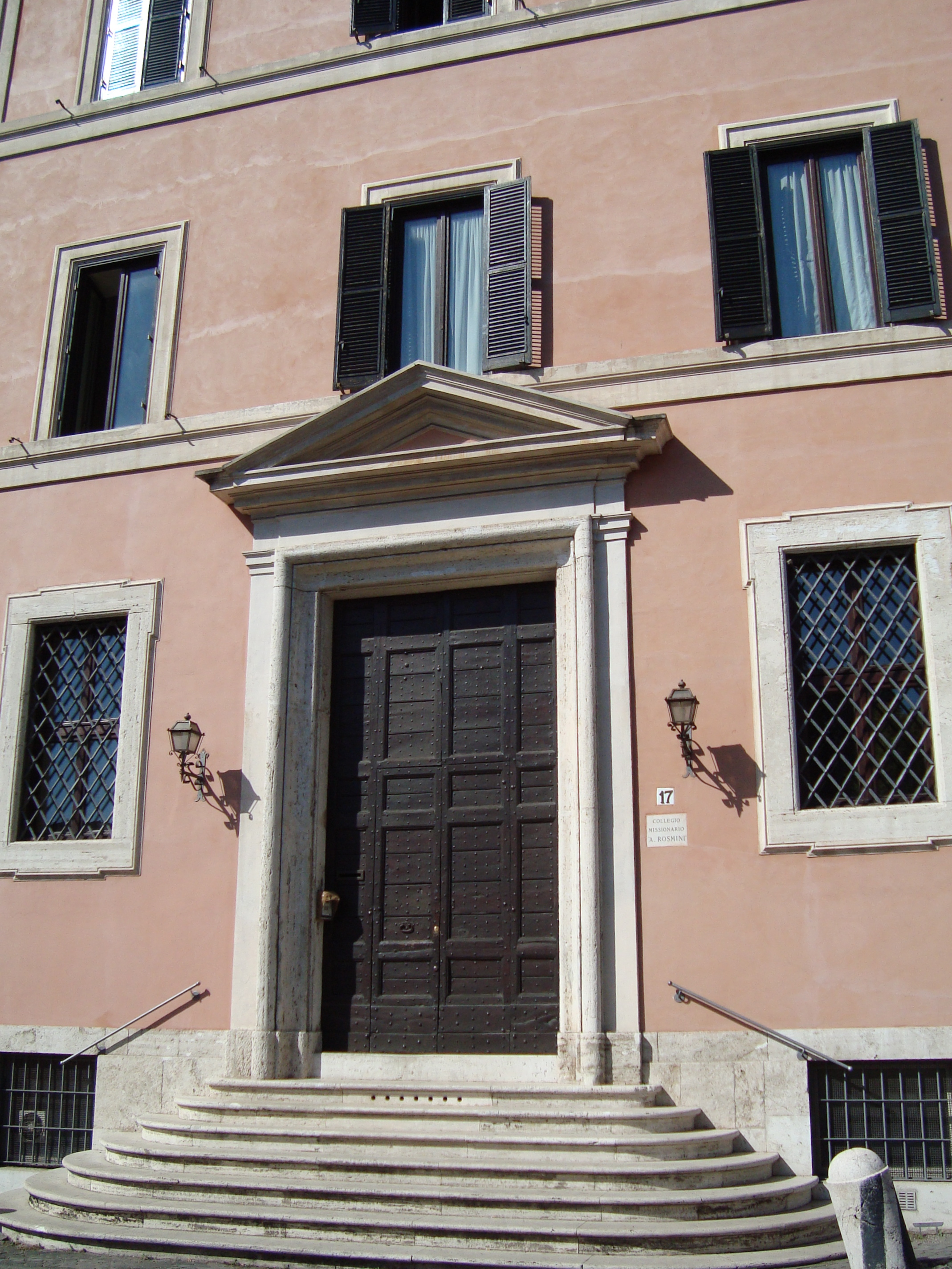 Entrance to the College Rosmini adjacent to San Giovanni a Porta Latina in Rome.